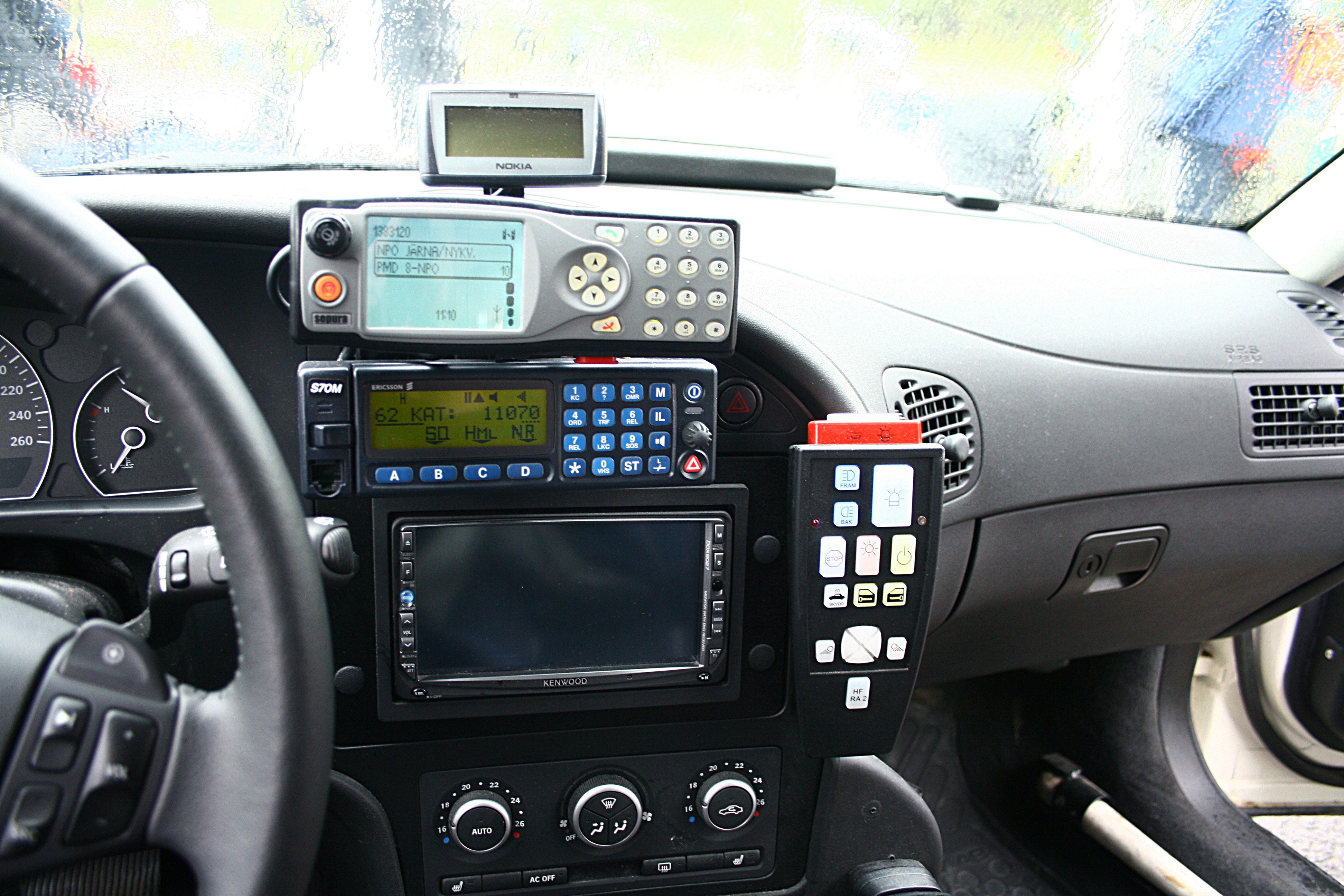 A TETRA radio unit as well as an older radio unit in a Swedish (Saab) police car